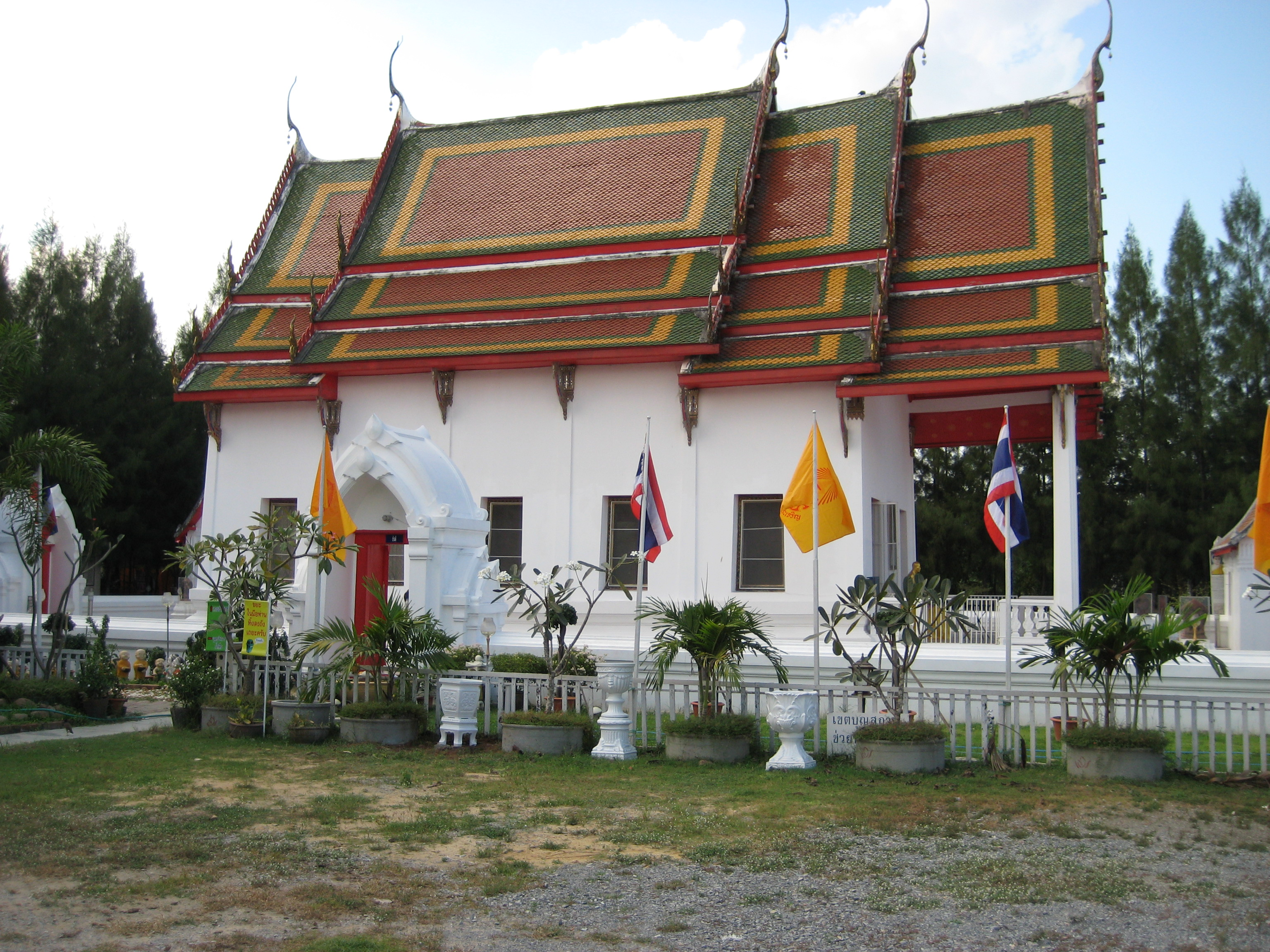 The Ubosot of Wat Bot Bon